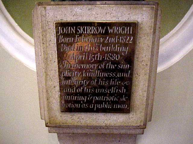 Bronze bust of John Skirrow Wright in the Council House, Victoria Square, Birmingham Taken by Stephen Hartland, The Birmingham Civic Society